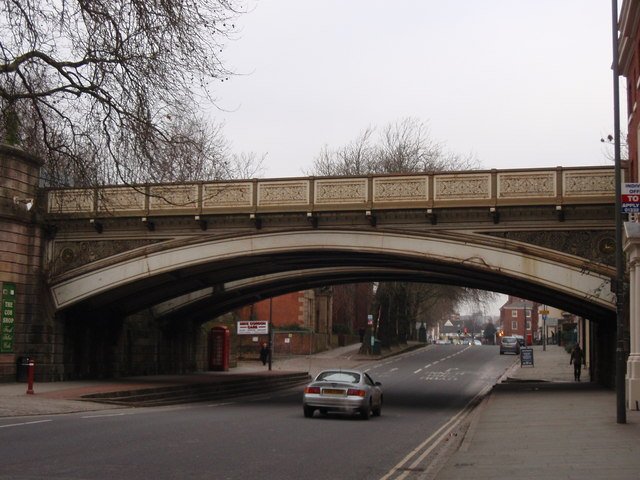 Friar gate bridge, Derby This bridge was built by Andrew Handyside in 1876-1878.